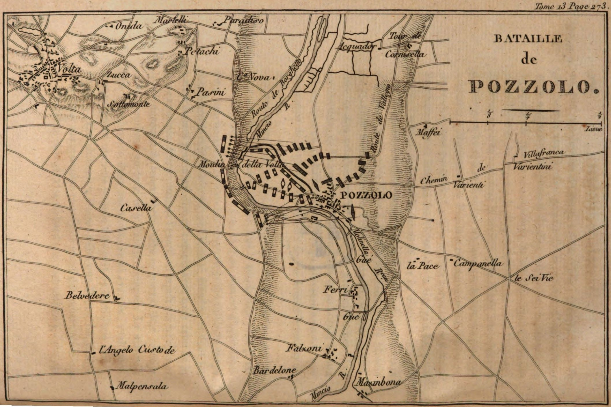 Map of the opening stages of the Battle of Pozzolo